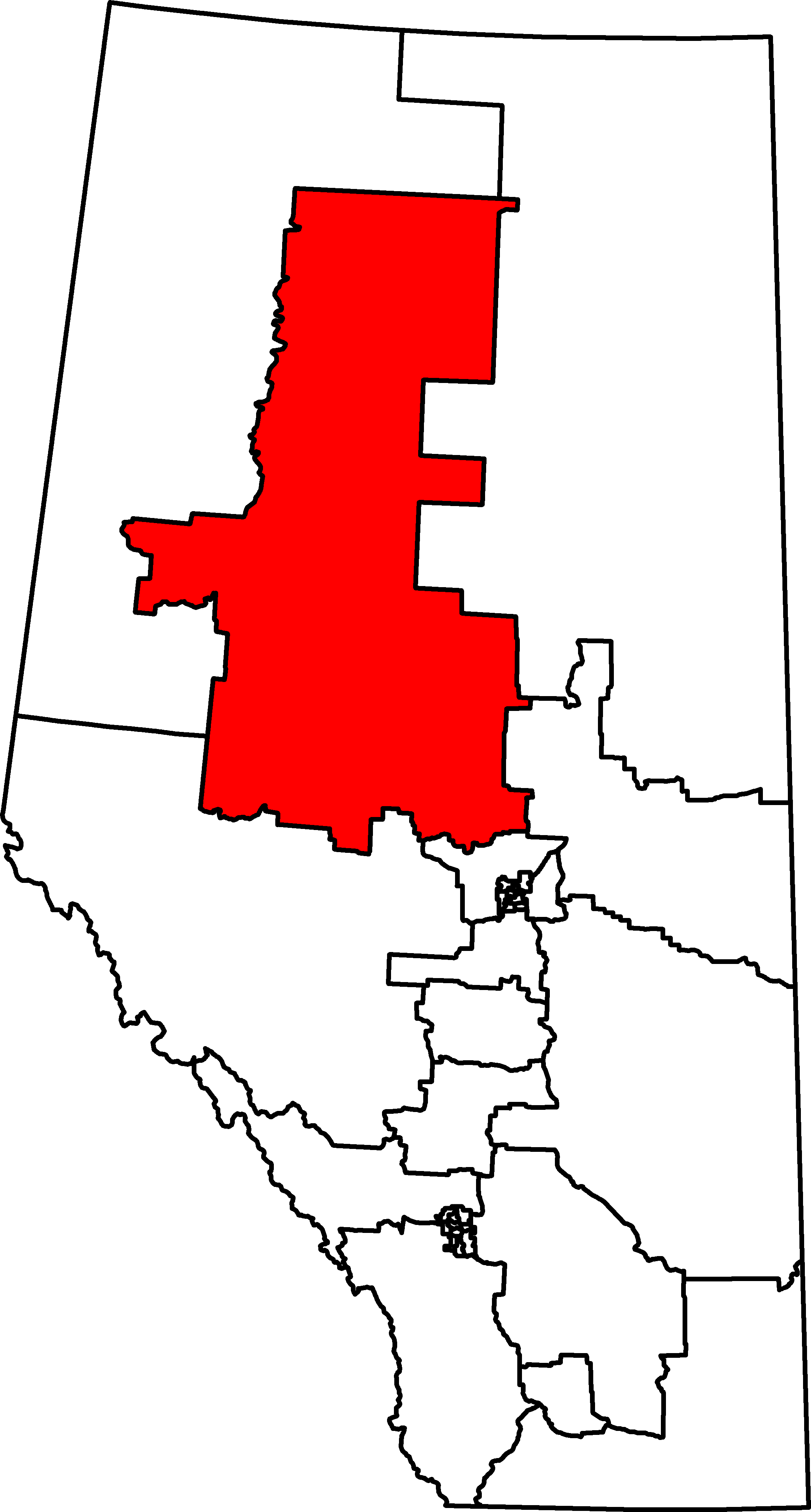 Federal Electoral District in Alberta, Canada as of the 2013 Representation Order.